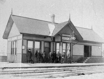 Image of the Brooklin train station on the Port Whitby and Port Perry Railway in Ontario.